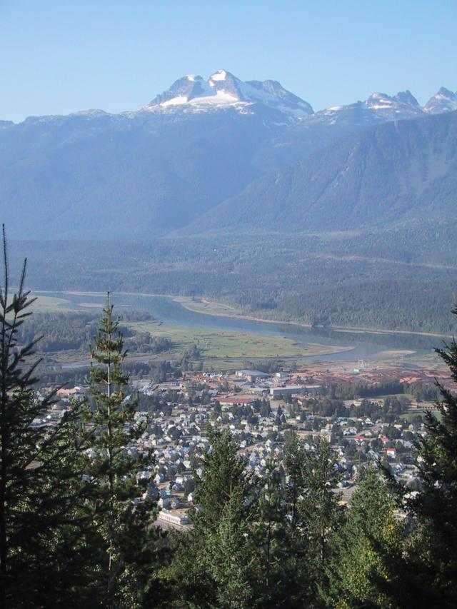 View to canadian city Revelstoke in British Columbia as seen from the Revelstoke National Park.